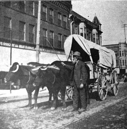 Ezra Meeker with his team in Omaha, Nebraska